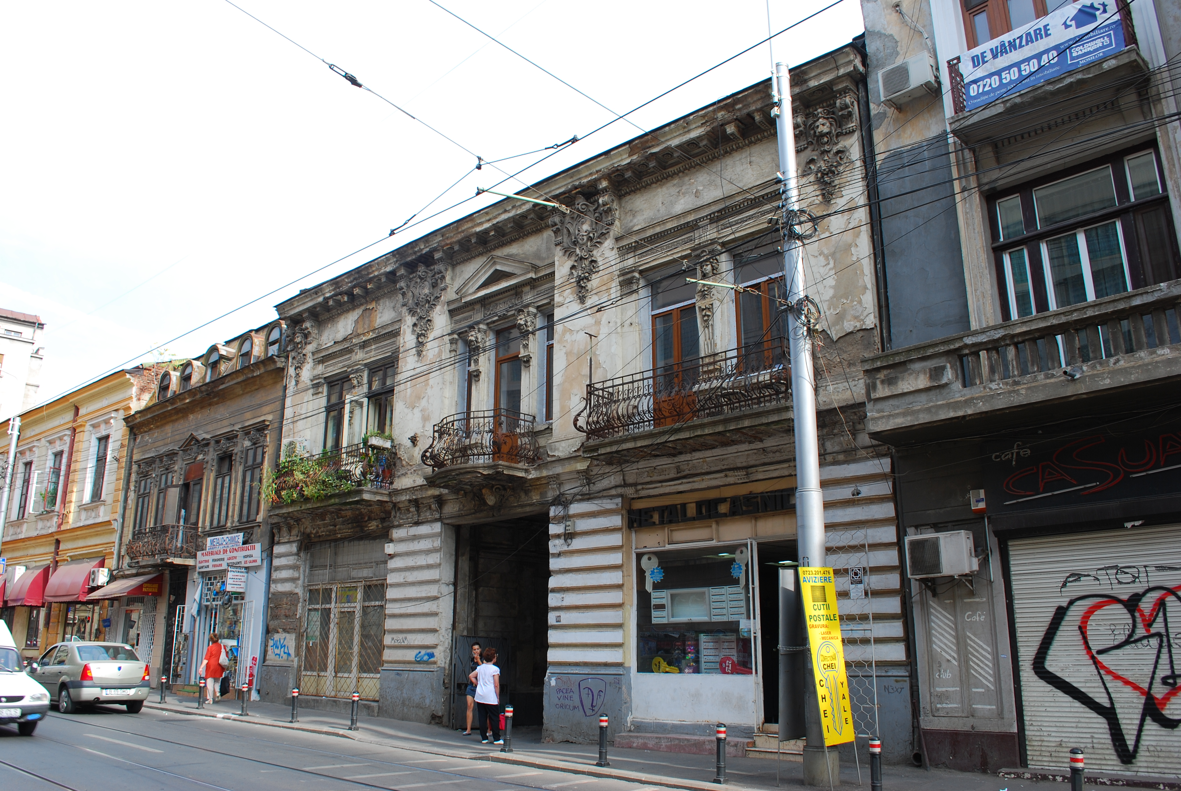 Historic buildings in Bucharest, Romania, on Calea Mosilor 90